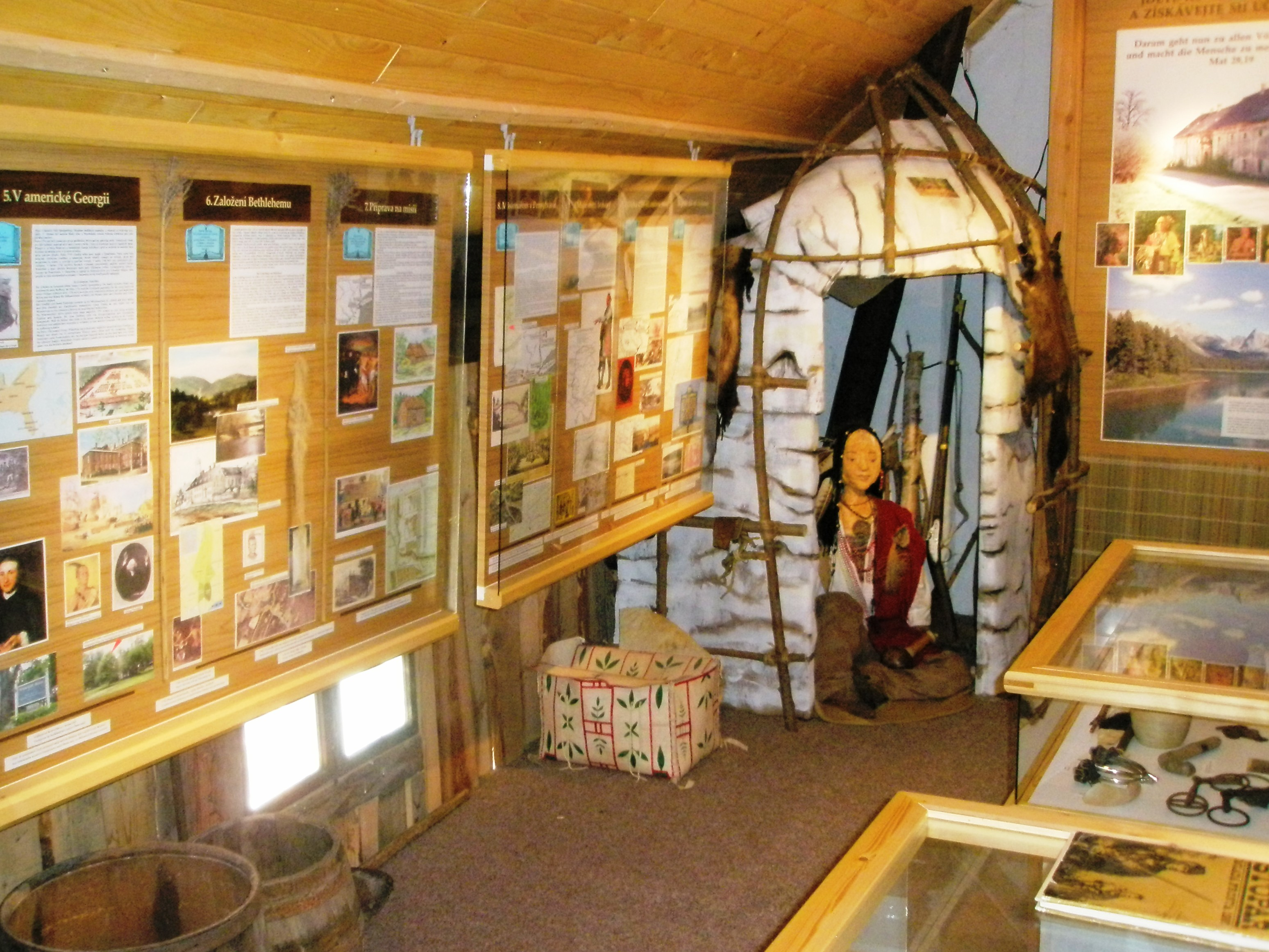 Museum of Moravian Brethren in Suchdol nad Odrou (Zauchtel, Zauchtenthal)